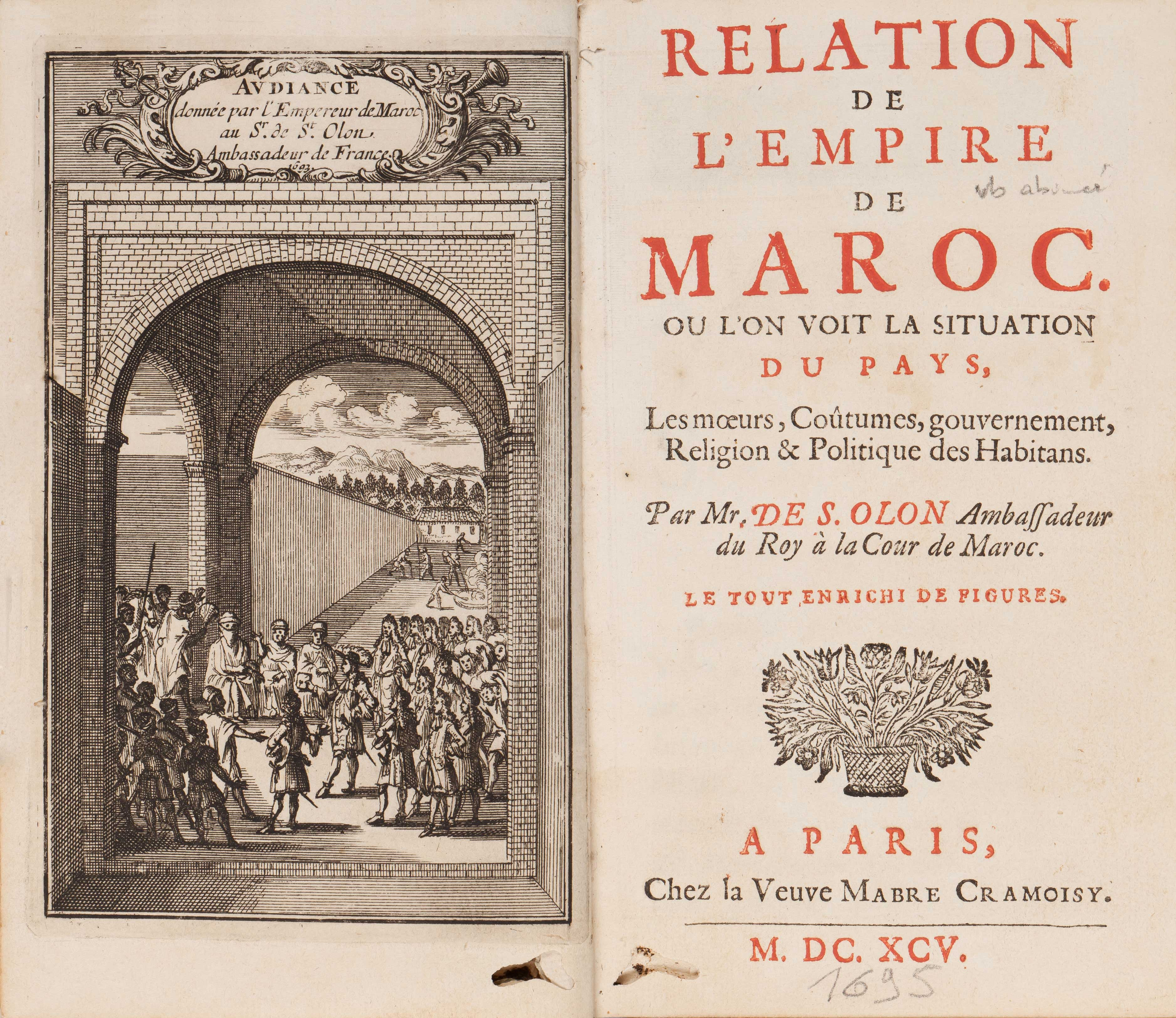 «Illustrations de Relation de l'Empire du Maroc où l'on voit la situation du pays, les moeurs, coutumes, gouvernement, religion et politique des habitants». (book)